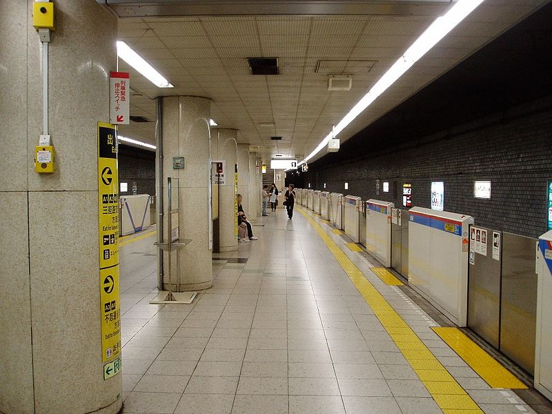 photo of japanese station from japanese wiki